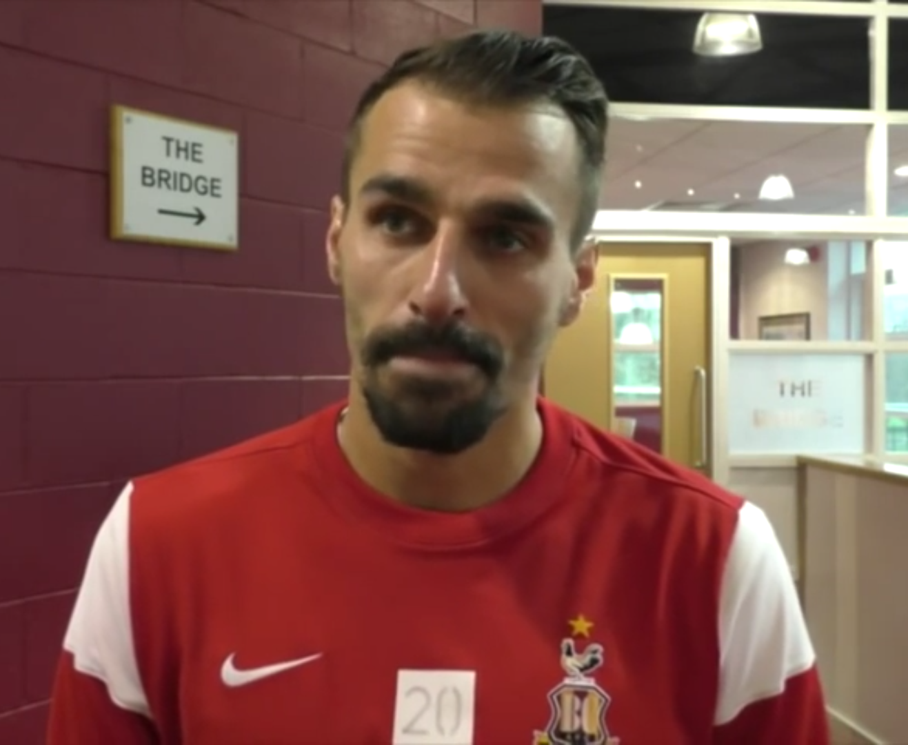 Portuguese footballer Filipe Morais